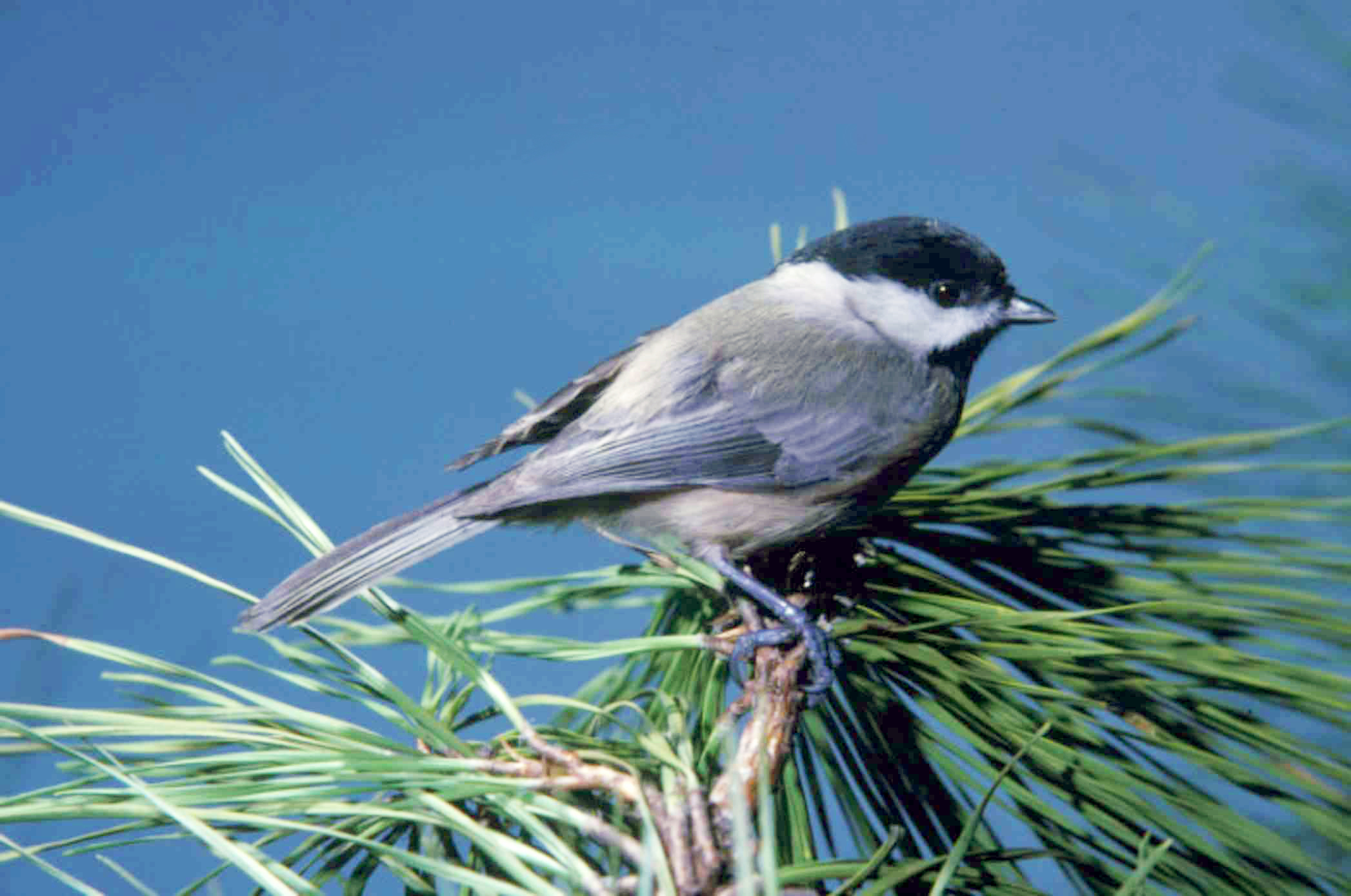 Carolina Chickadee perching on a pine branch